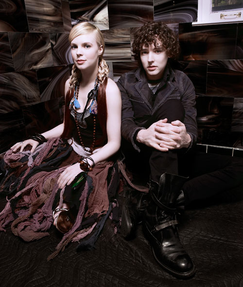 The Green Children, photographed in Nashville, TN.